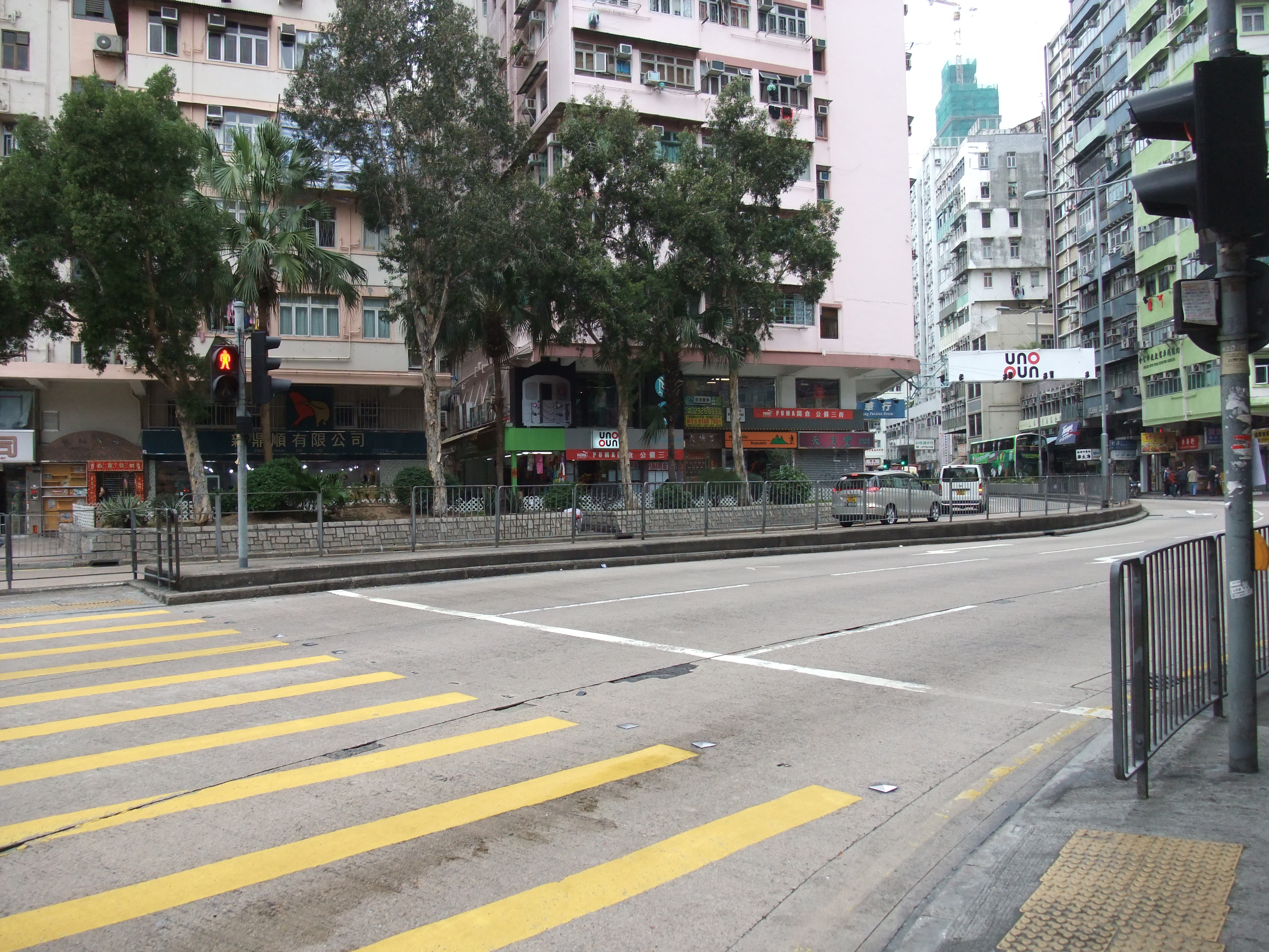 The south end of Tai Po Road, Kowloon, Hong Kong.